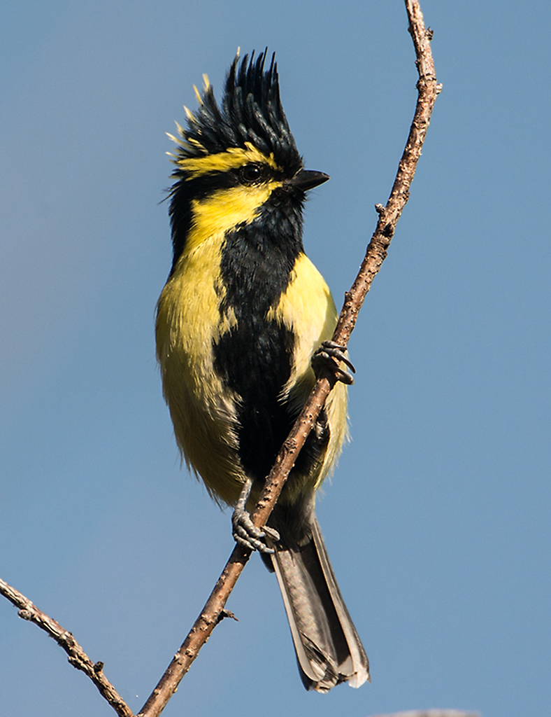 A Black-lored Tit at Chopta, Uttarakhand, India.